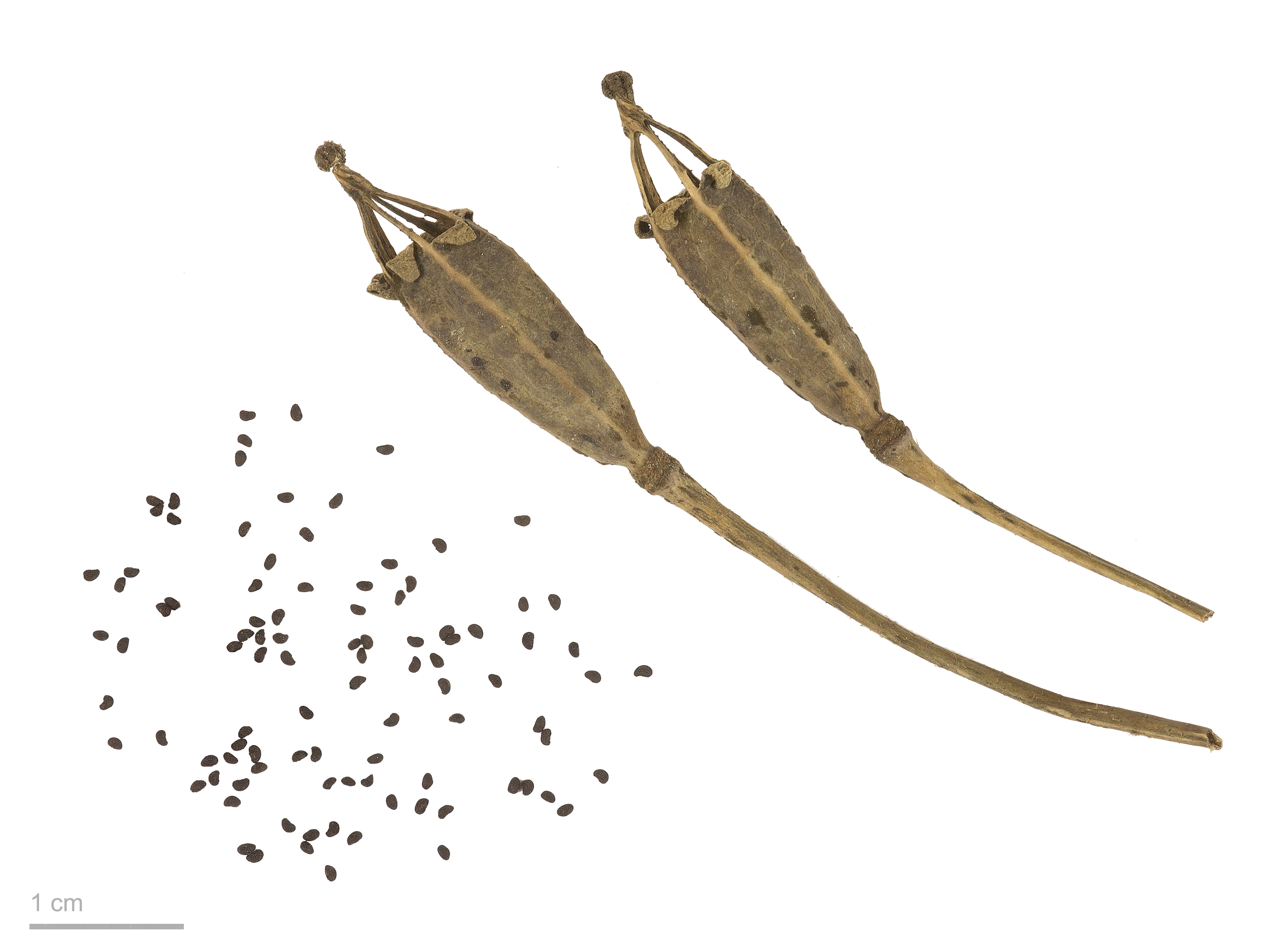 Welsh poppy , fruits and seeds